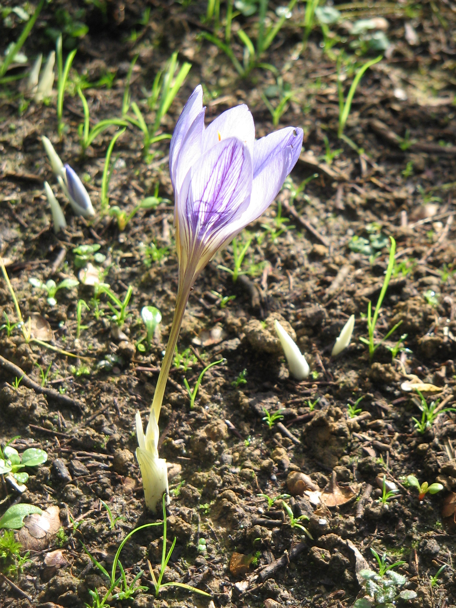 Crocus cancellatus